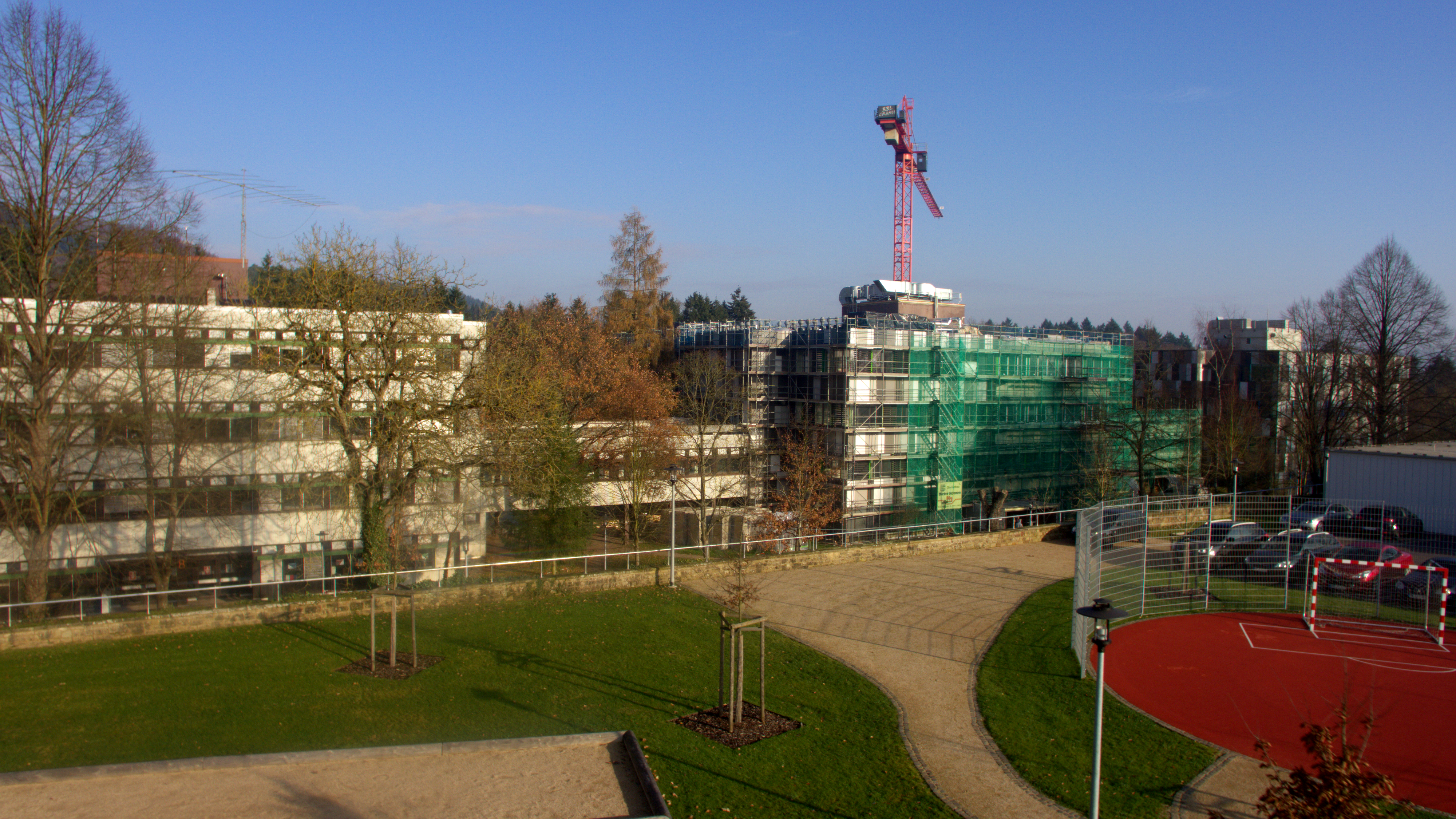 University of applied sciences Trier, buildings B, C and D (from left to right)